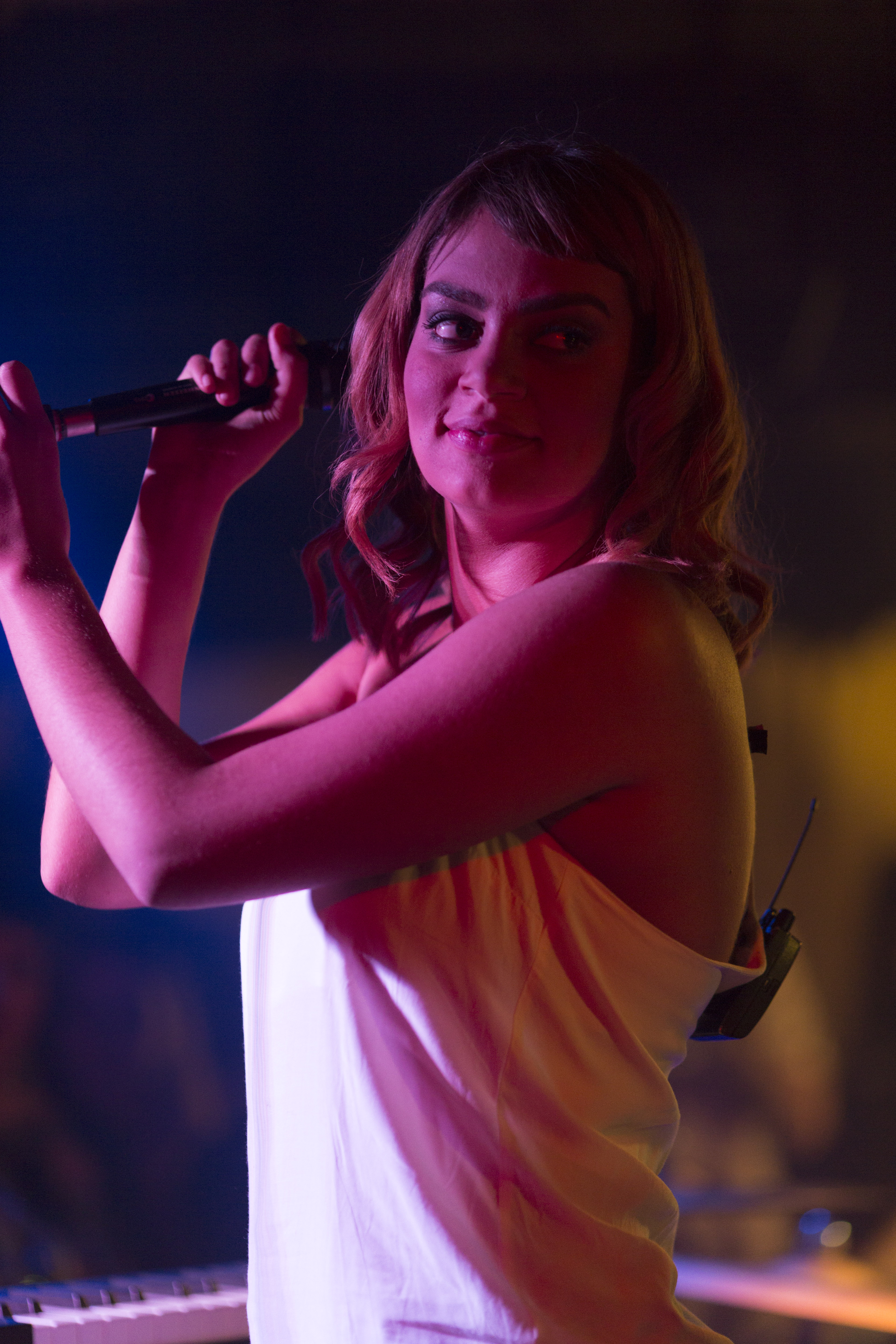 Thelma Plum @ Plan B - 17th June 2016